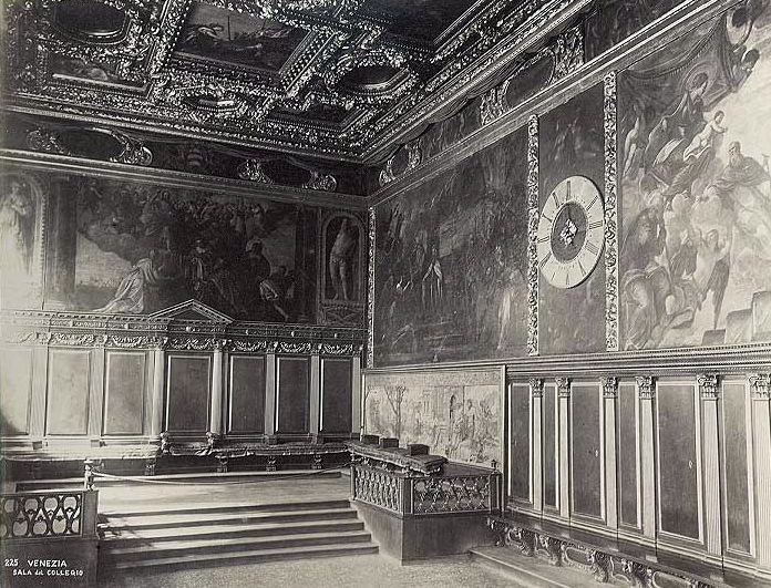 Carlo Naya (1822-1881) - "Venice. Hall of the Collegio ". Catalogue # 225.